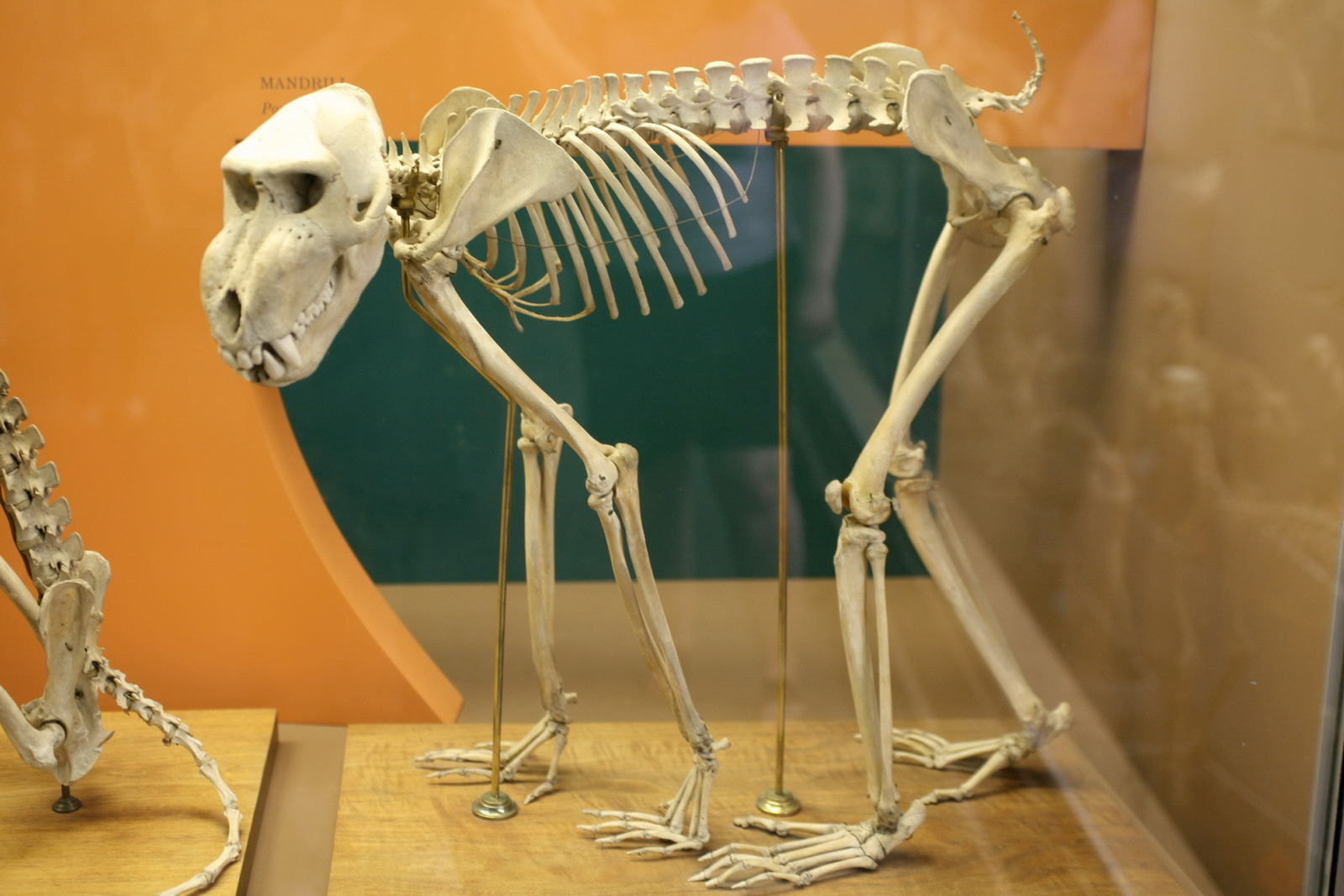 Skeleton of mandrill (Mandrillus sphinx)